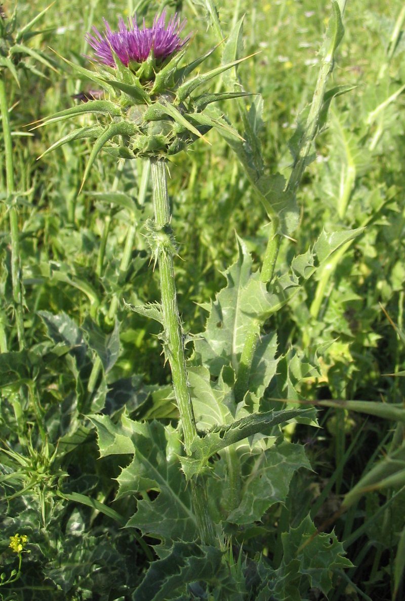 Silybum marianum - image taken on 5 April 2004, near the Zavitan river, Golan Heights, Israel.